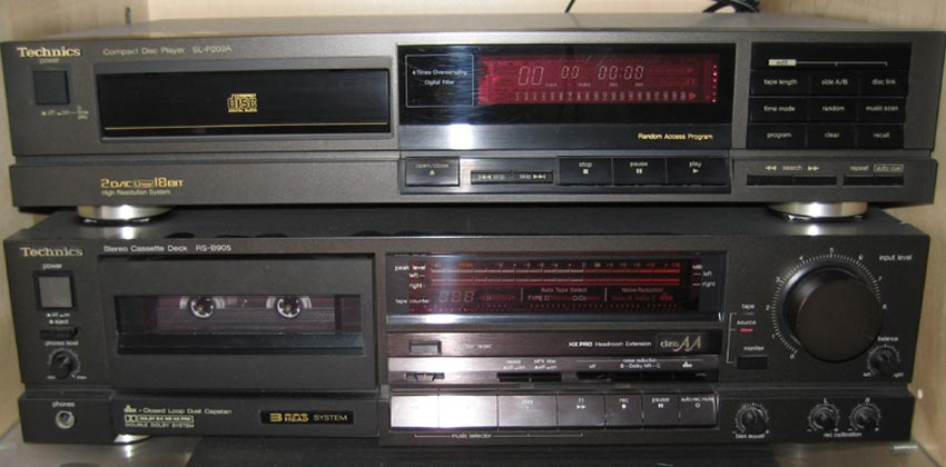 Technics tape and cd-player from 1988